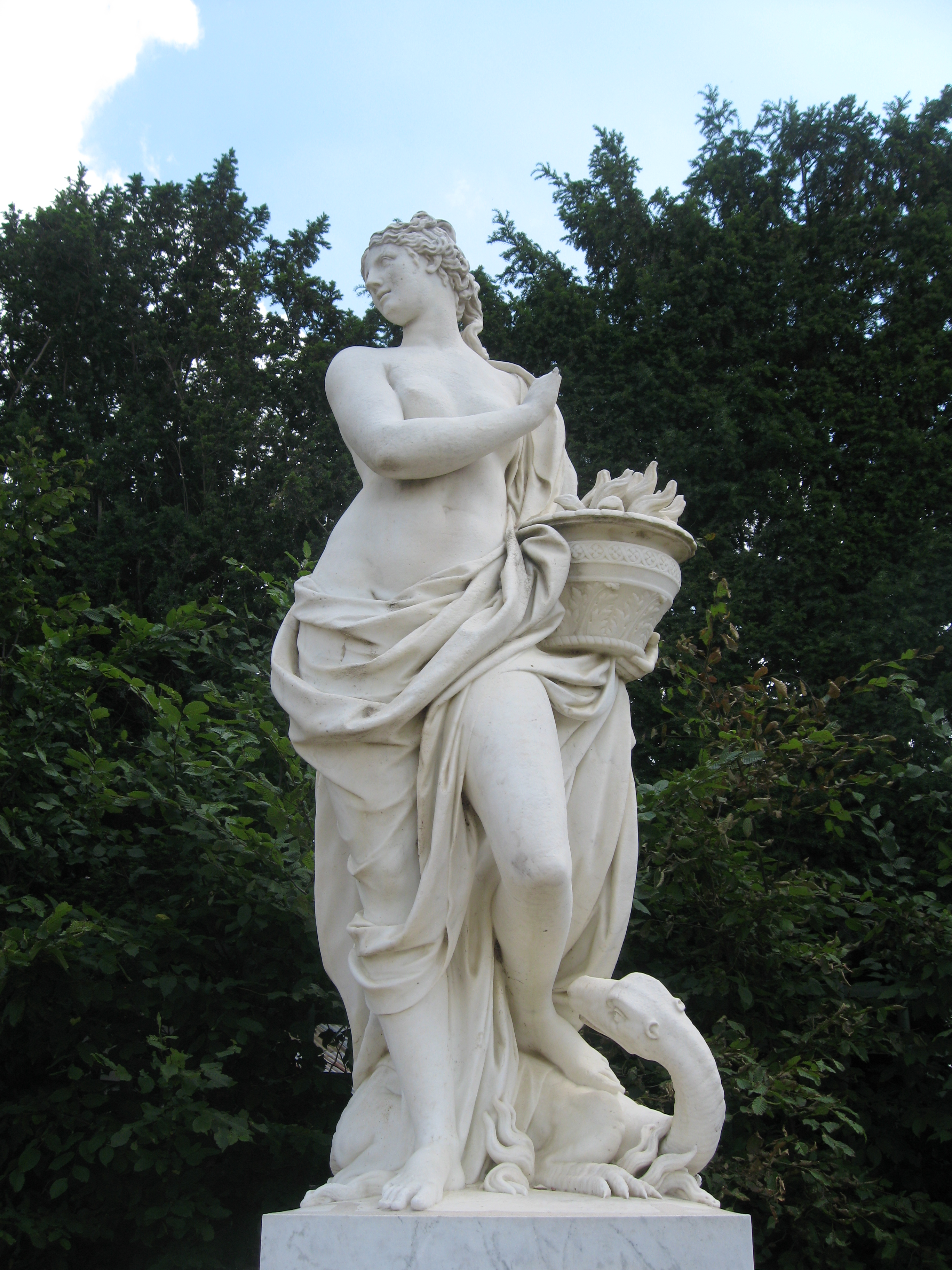 Le Feu (Fire), by Nicolas Dossier